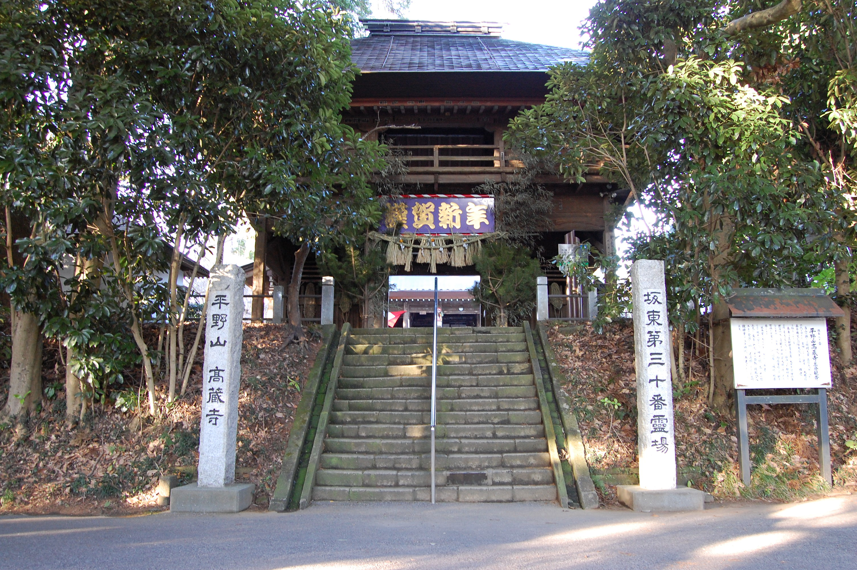 This temple's name is "Kōzō-ji", located in Kisarazu, Chiba, Japan. Another name is "Takakura-Kannon"